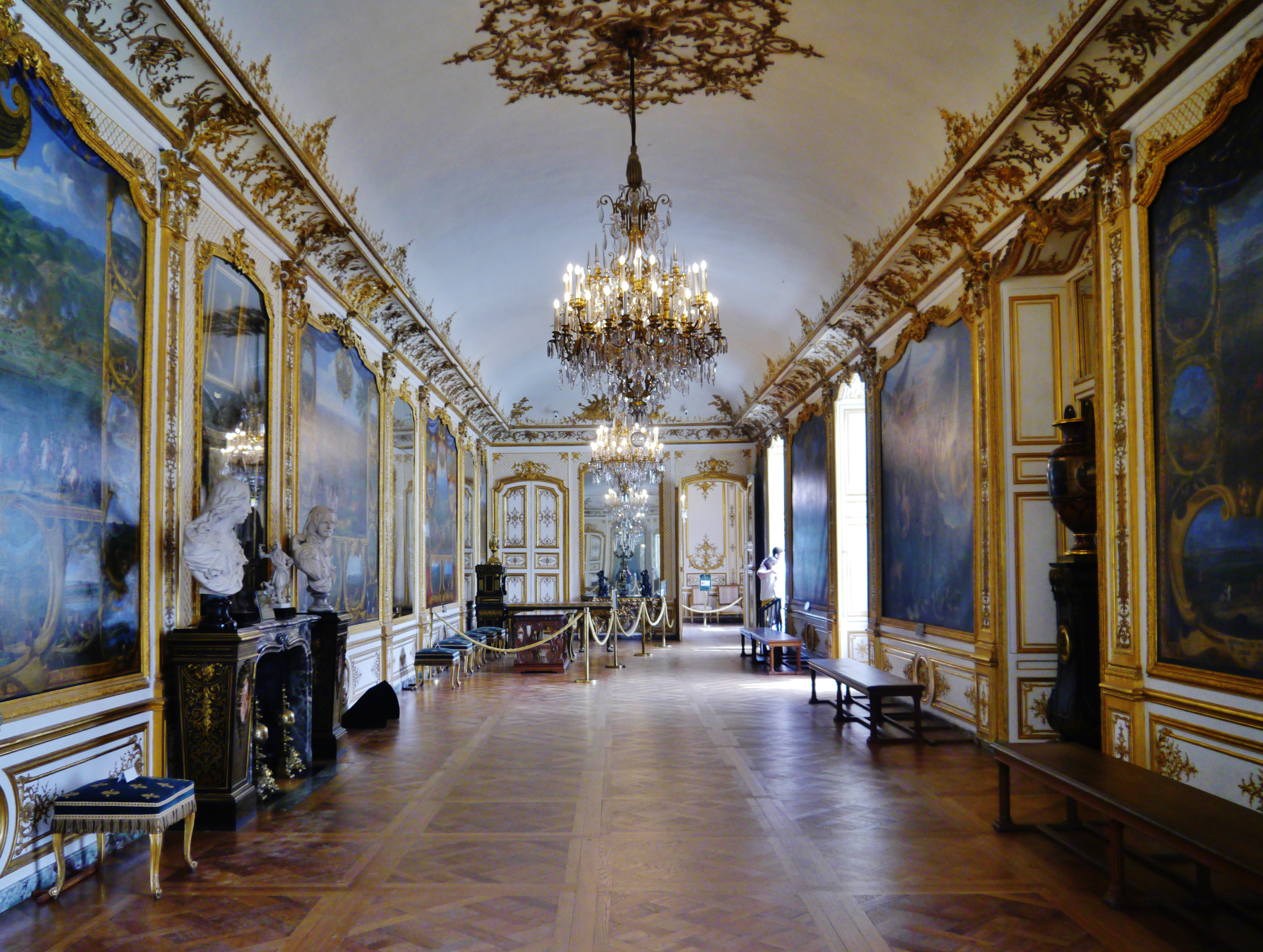 Battle Gallery of Chantilly Palace, Chantilly, Department of Oise, Region of Upper France (former Picardy), France